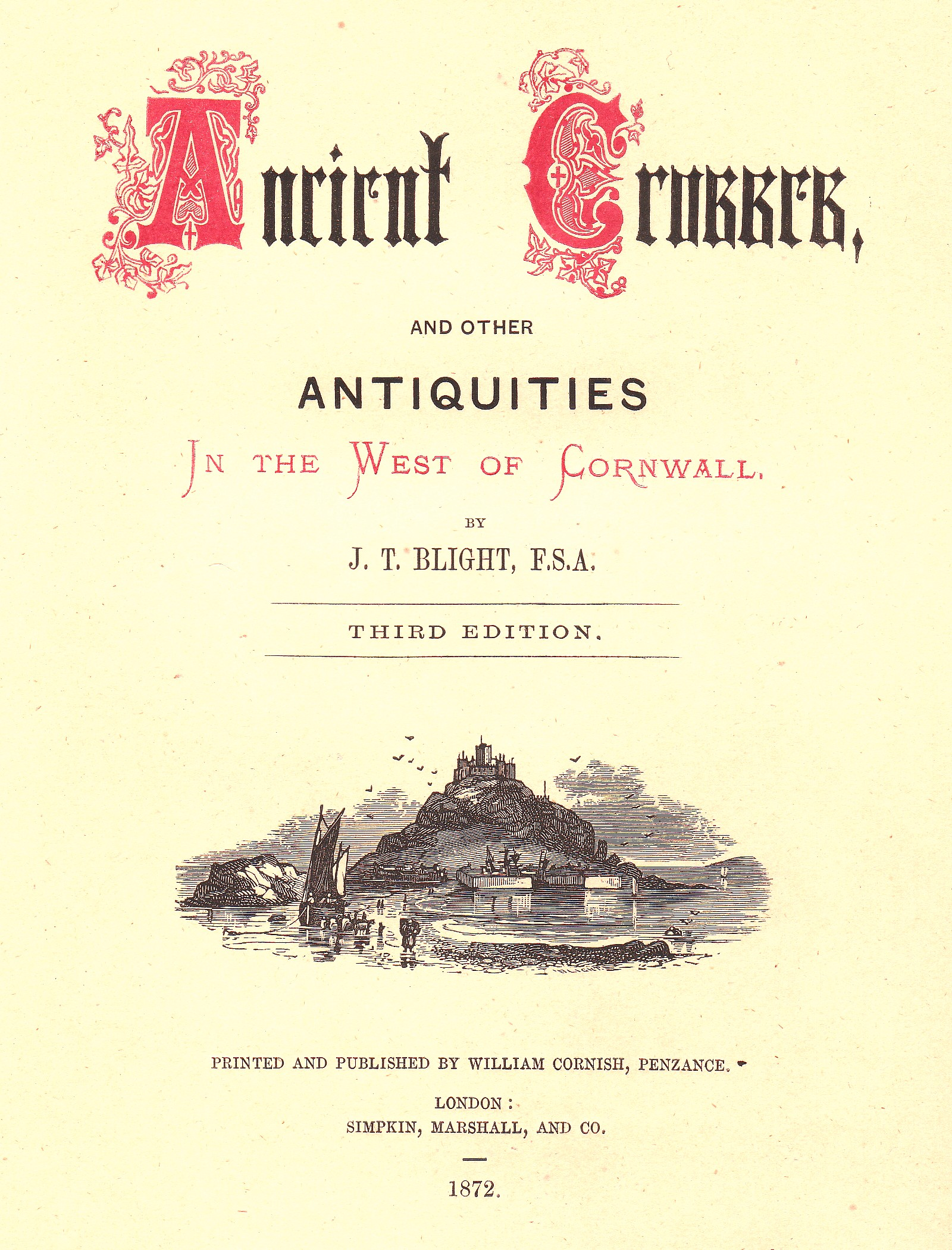 Ancient crosses and other antiquities in the West and East of Cornwall